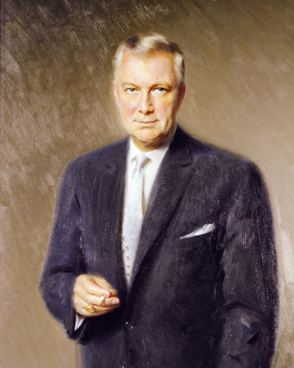 Daniel Killian Moore, 1965-1968 From the General Negative Collection, State Archives of North Carolina, Raleigh, NC.